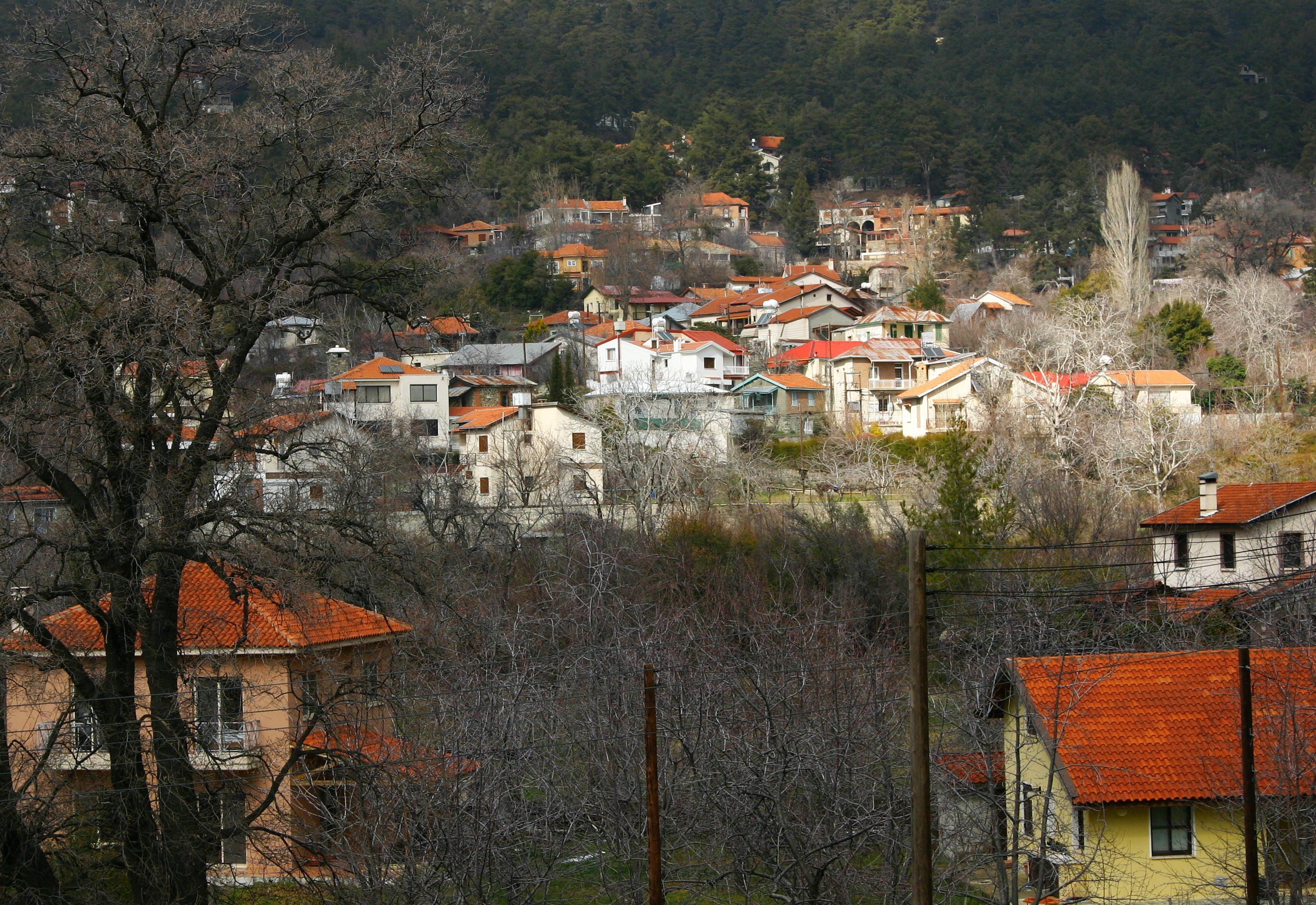 Platres, Cyprus, seen in the winter.